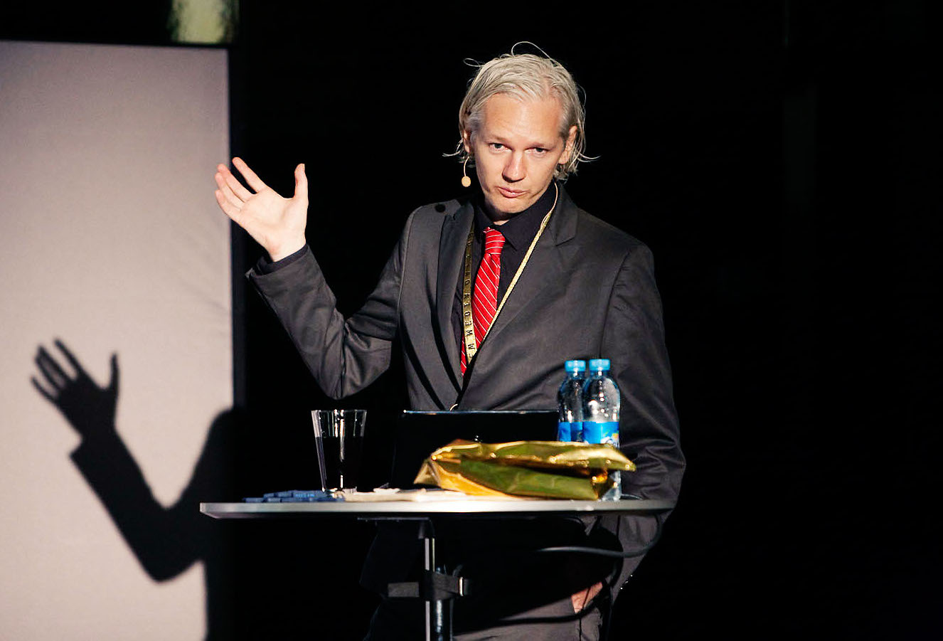 Julian Assange at New Media Days 09 in Copenhagen.